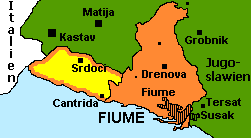 The territory of thr Fiume free-state. (orange = the old Hungarian district of Fiume till 1918, yellow = added to Fiume 1919, green = Yugoslavia)